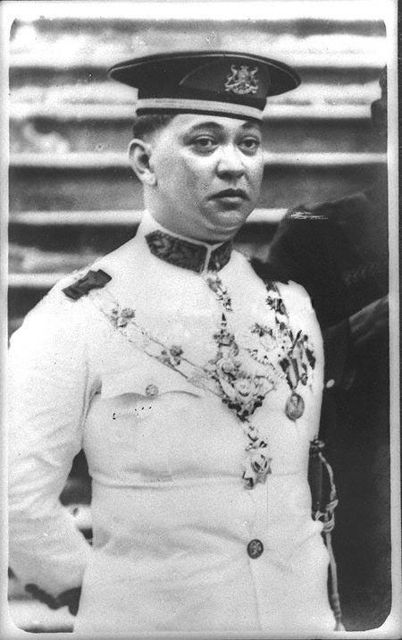 Tunku Ismail, Tunku Mahkota of Johor (1895-1959), later Sultan Ismail